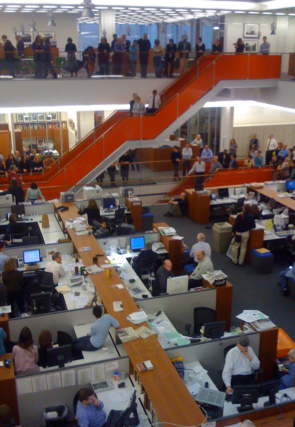 A speech in The New York Times newsroom after the announcement of the 2009 Pulitzer Prize winners